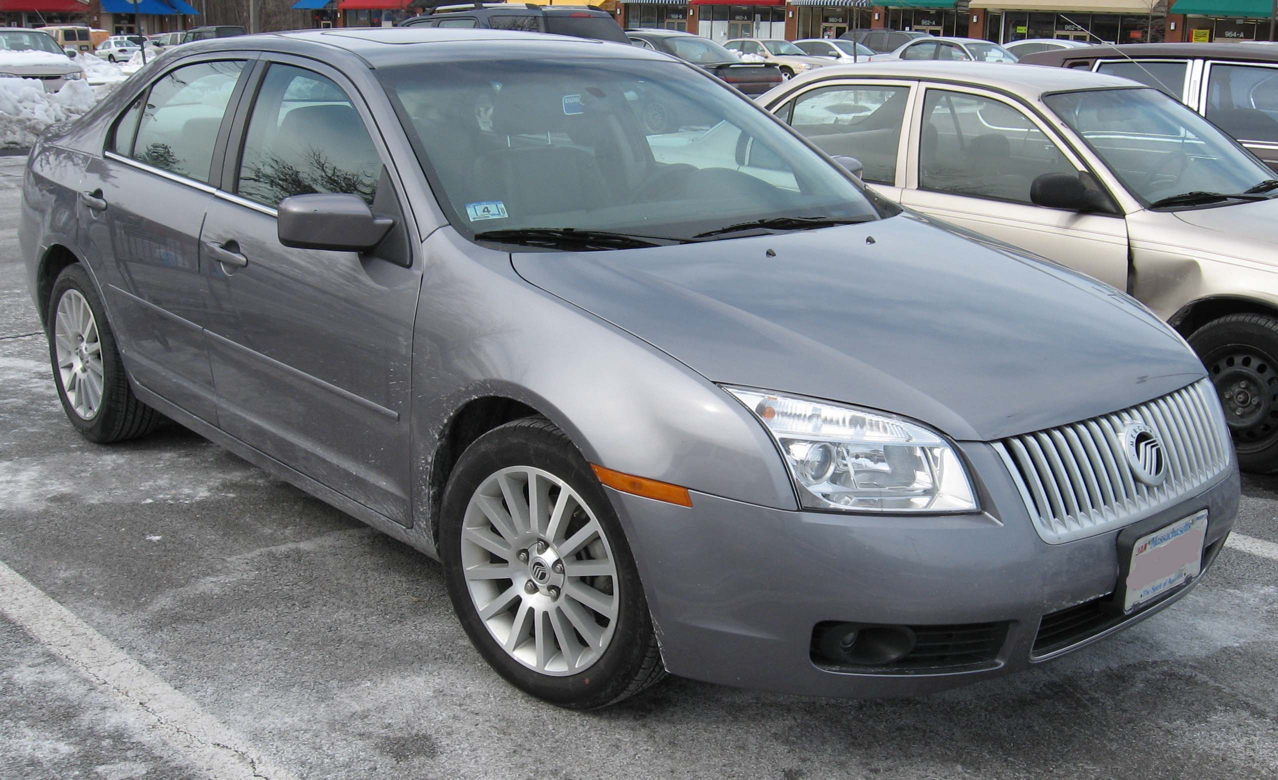 2006-2007 Mercury Milan photographed in USA.